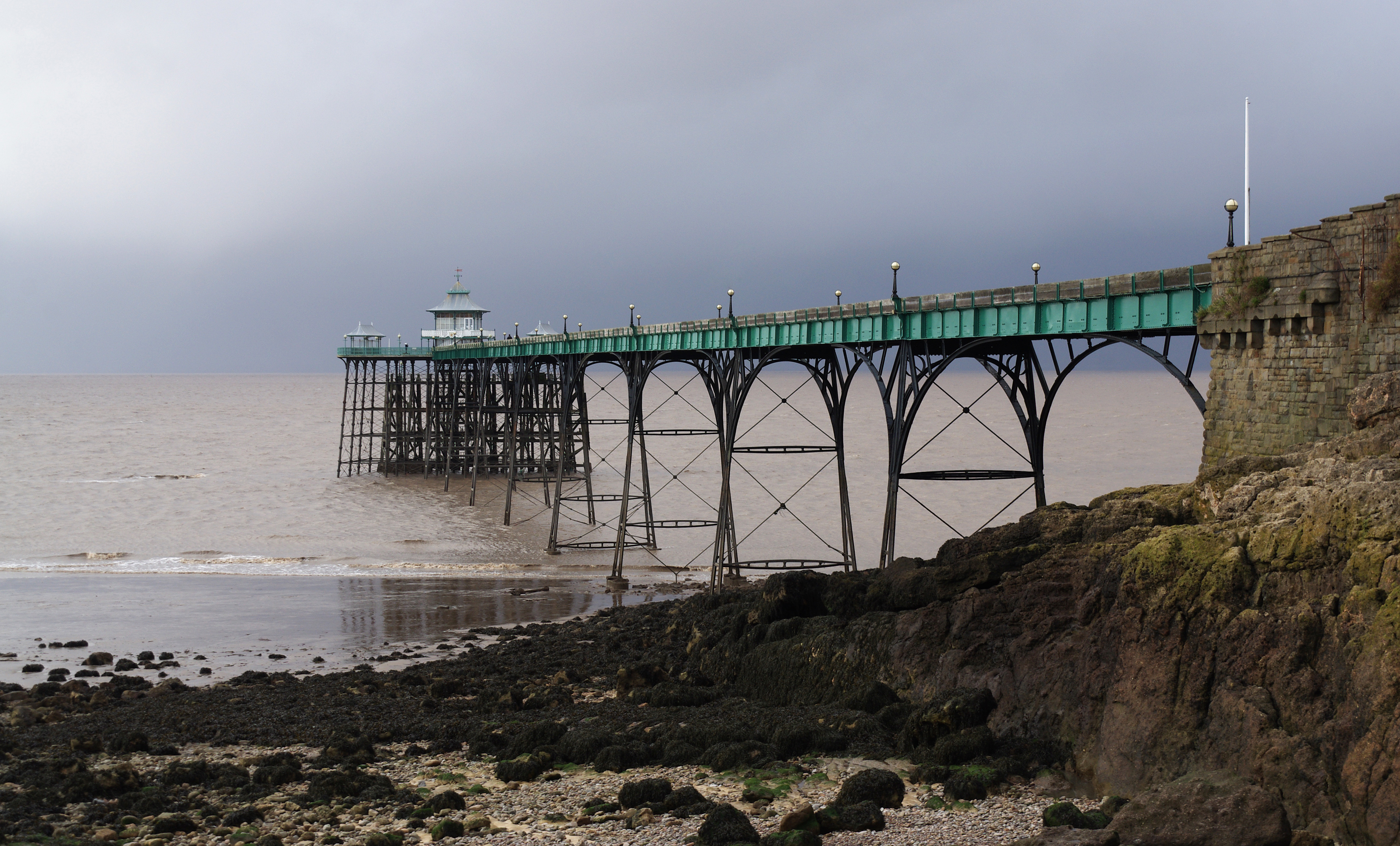 Clevedon Pier at low tide.